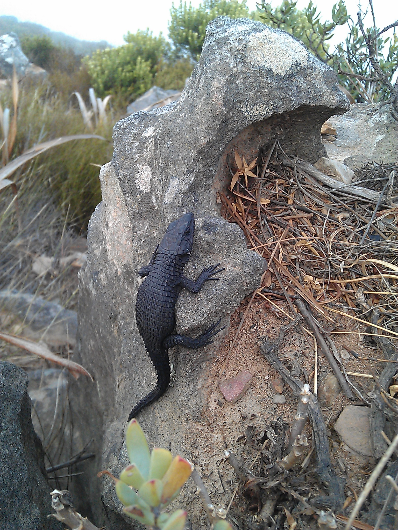 A black girdled lizard (Cordylus niger) sitting on a rock, amidst fynbos vegetation. Photo taken while hiking up Lion's Head in Cape Town, South Africa.